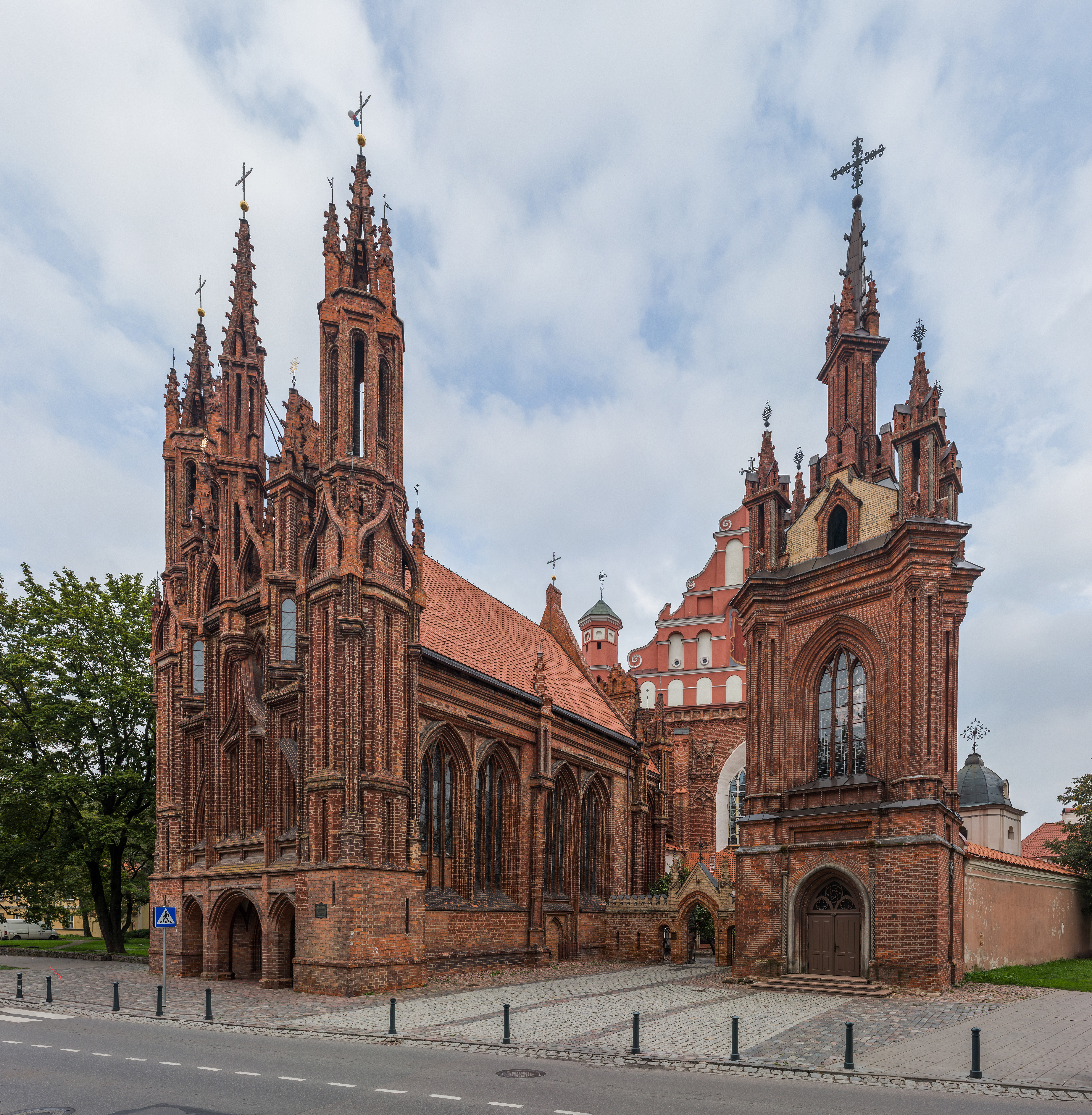 The exterior of St Anne's Church in Vilnius, Lithuania.